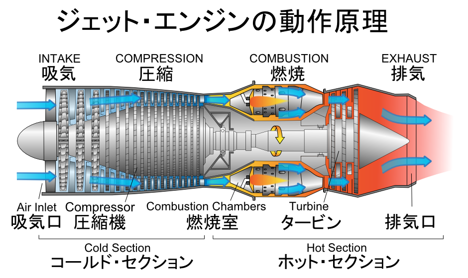 Jet engine cut model